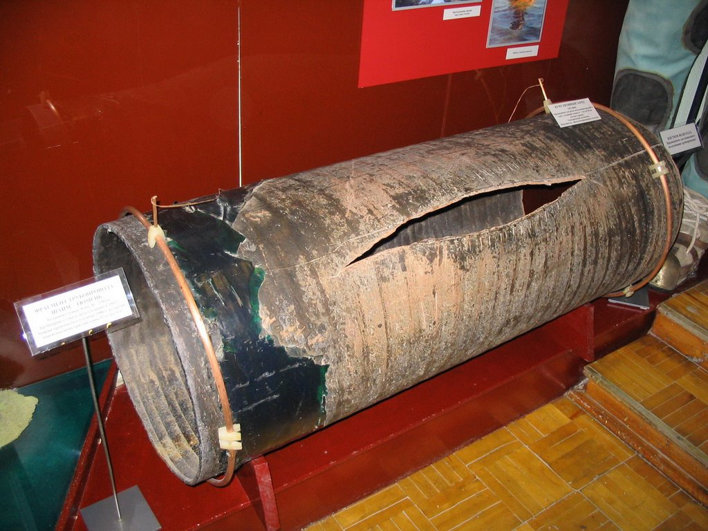 Exploded gas pipeline segment, displayed in a museum in Tyumen, Russia.